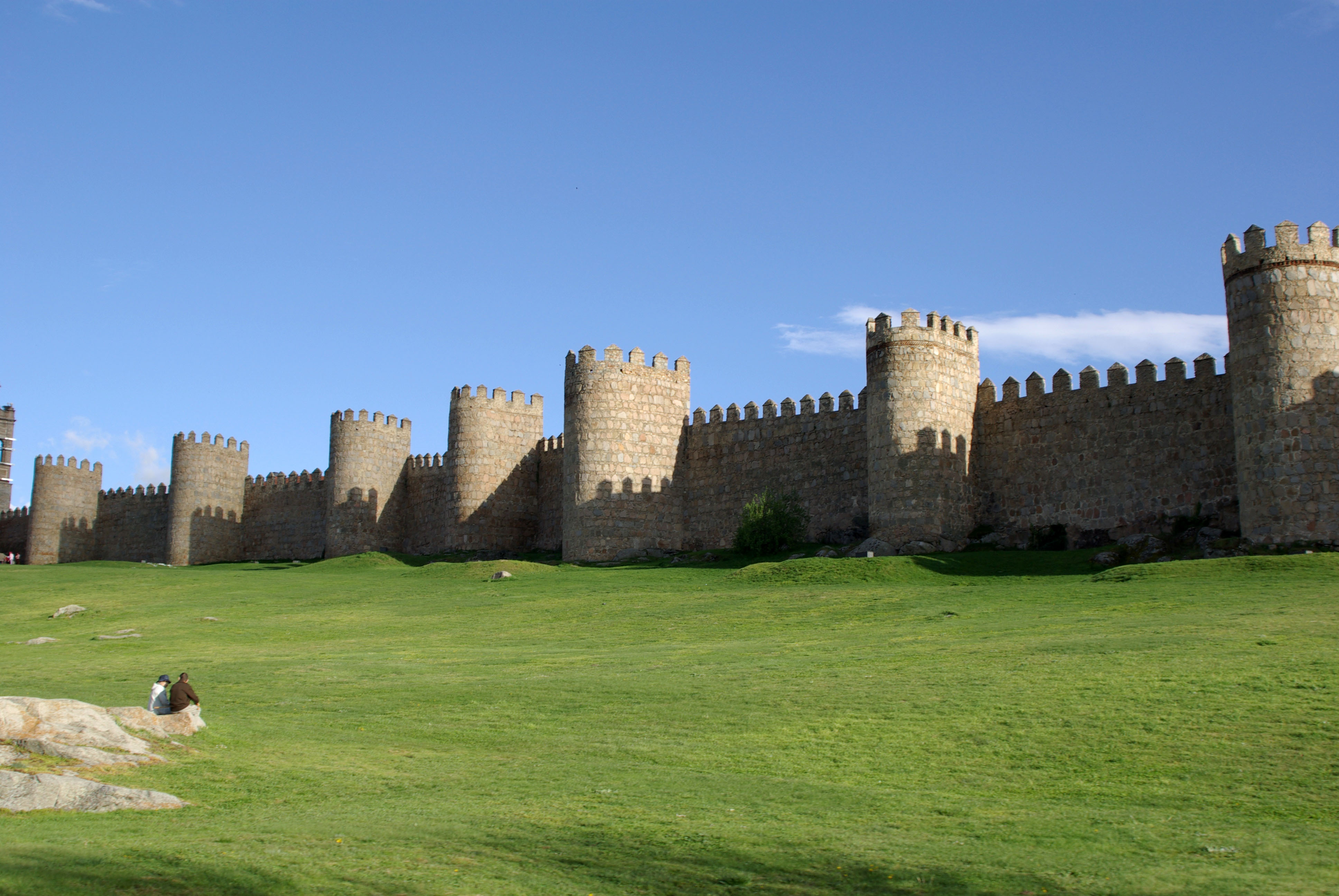 North face of Walls of Ávila, (Spain)